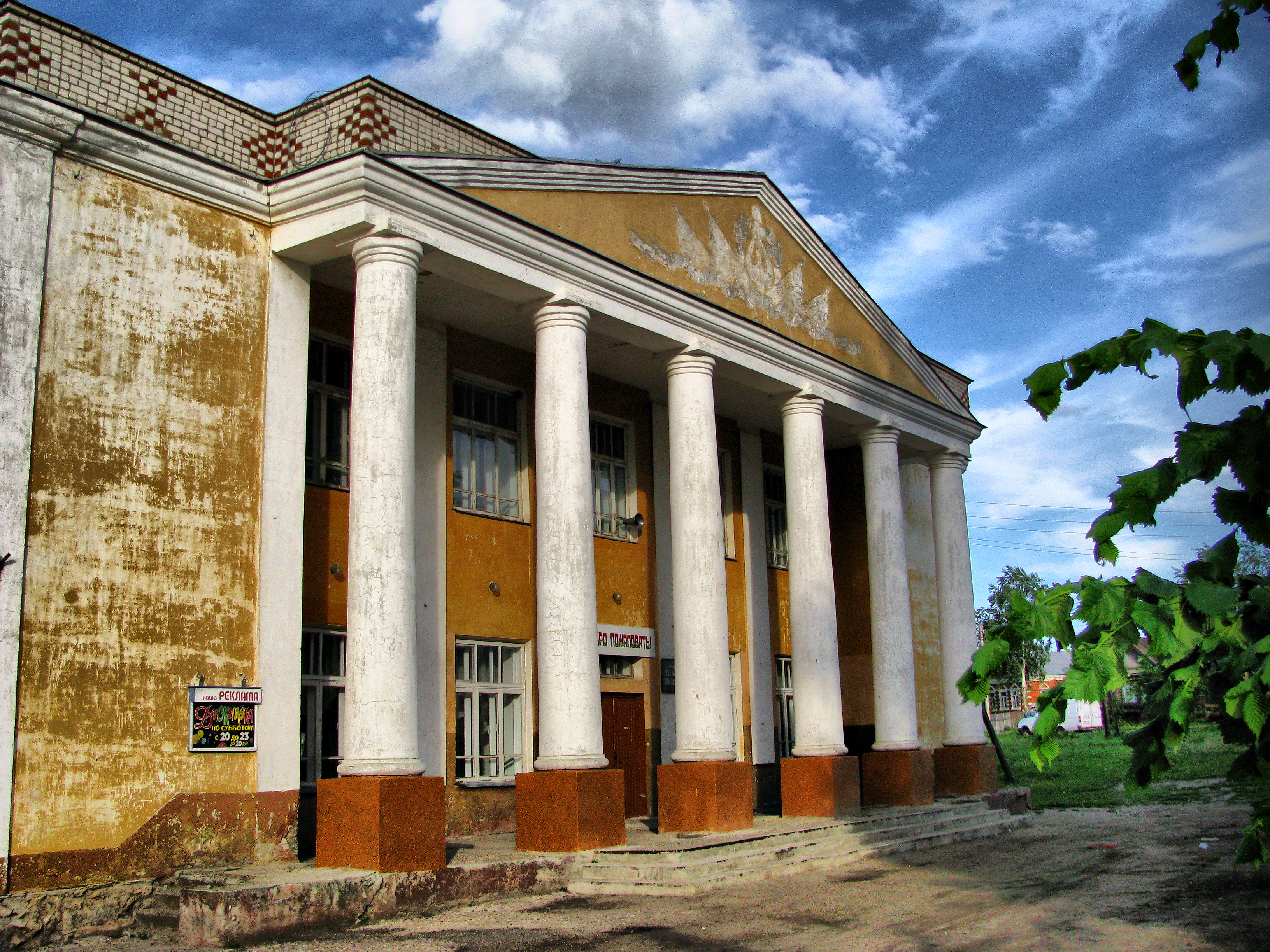 Cultural center of village Abramovo, Arzamassky District, Nizhny Novgorod Oblast.